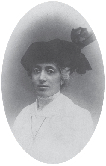 Ernesta Bittanti, Cesare Battisti's wife.